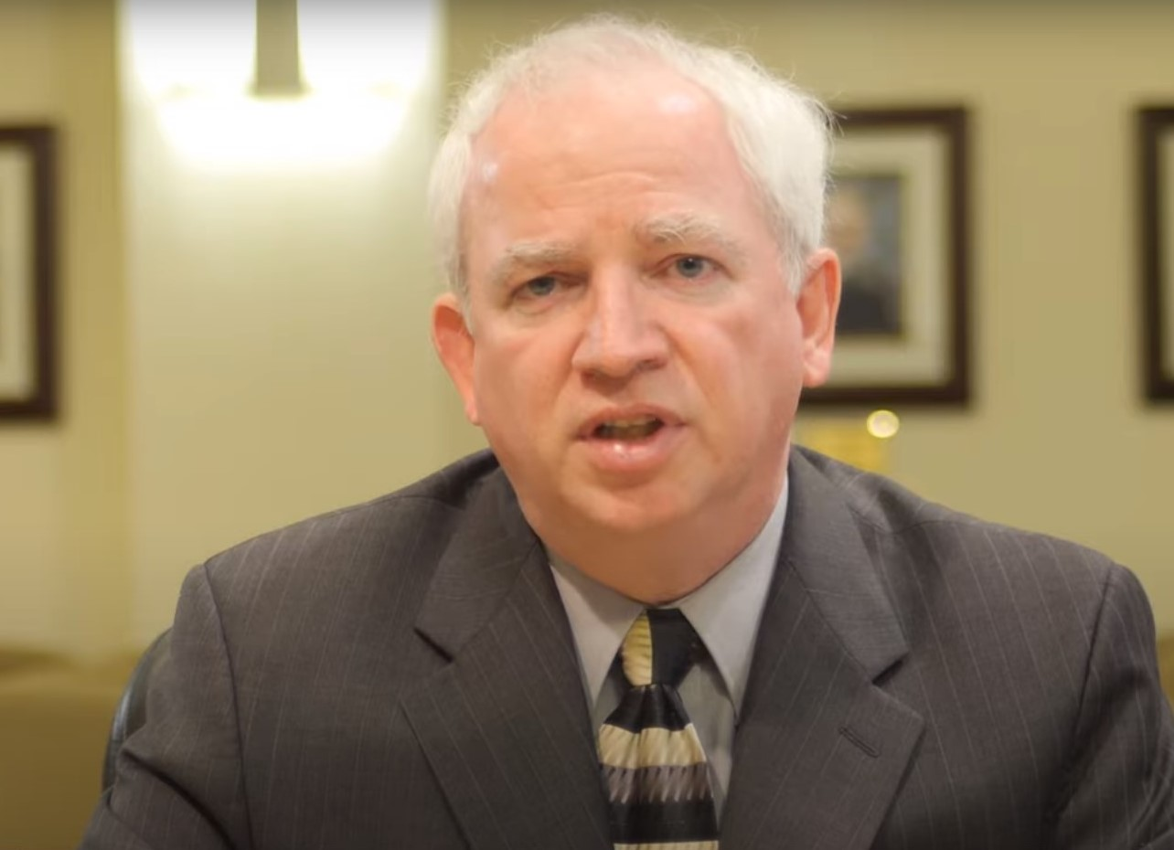 John Eastman, chairman of the Board of Directors of the National Organization for Marriage, discusses his views on the Supreme Court's upcoming review of Prop. 8 and DOMA.